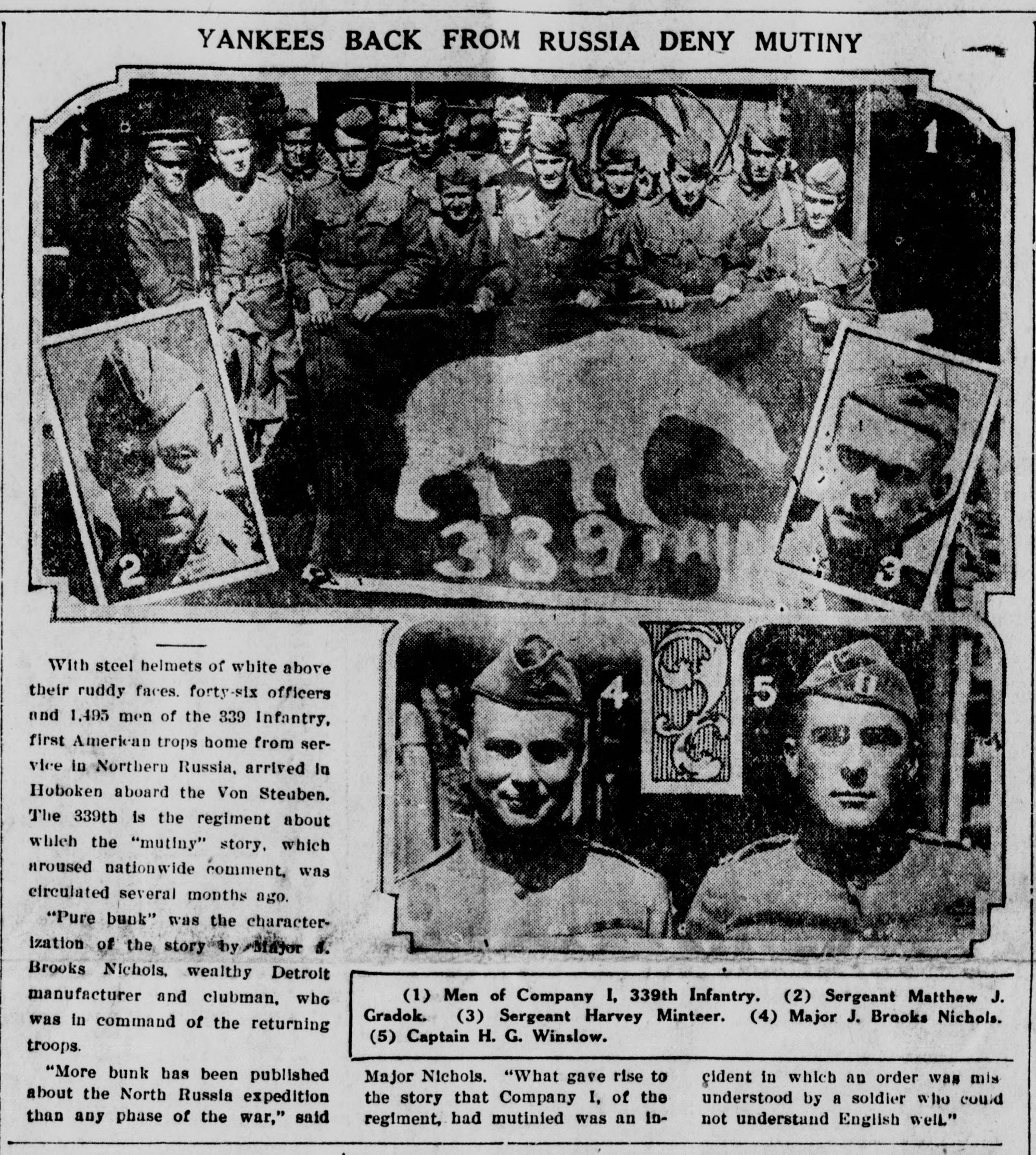 "With steel helmets of white above their ruddy faces, forty-six officers and 1,495 men of the 339 Infantry, first American troops home from service in Northern Russia, arrived in Hoboken aboard the Von Steuben. The 339th is the regiment about which the 'mutiny' story, which aroused nationwide comment, was circulated several months ago. 'Pure bunk' was the characterization of the story Major J Brooks Nichols, wealthy Detroit manufacturer and club man, who was in command of the returning troops. 'More bunk has been published about the North Russia expedition than any phase of the war,' said Major Nichols. 'What gave rise to the story that Company I, of the regiment, had mutinied was an Incident to which an order was misunderstood by a soldier who could not understand English well'" (1) Men of Company 1, 339th Infantry. (2) Sergeant Matthew J. Gradok. (3) Sergeant Harvey Minteer. (4) Major J. Brooks Nichols (5) Captain H. G. Winslow.